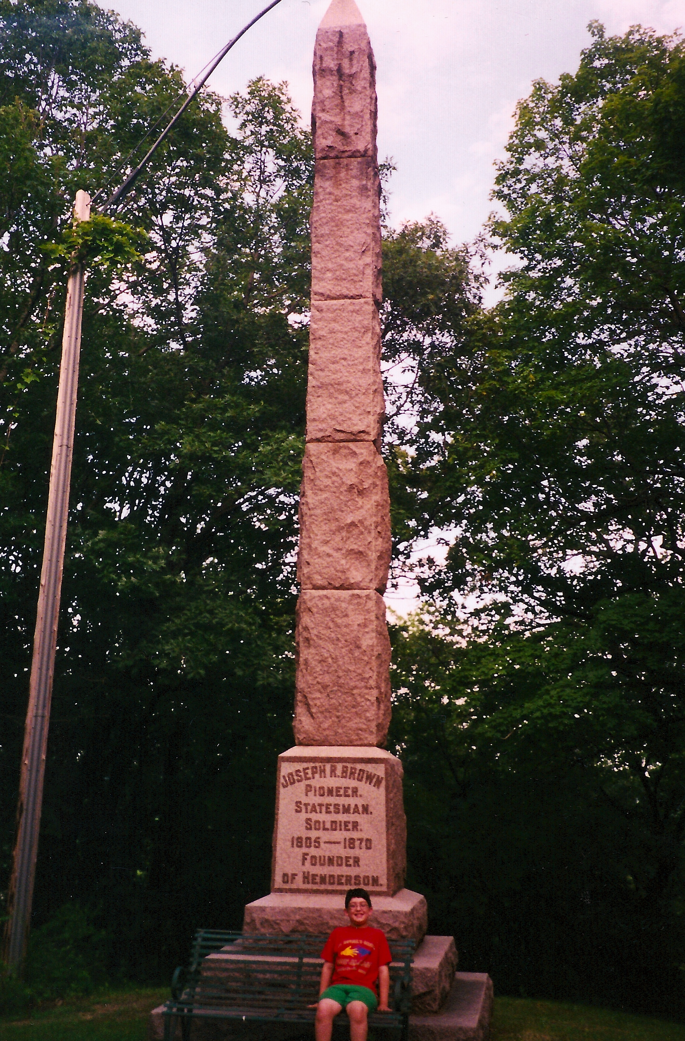 Joseph Brown's Monument, located in the old section of Brown Cemetery in Henderson, Minnesota.